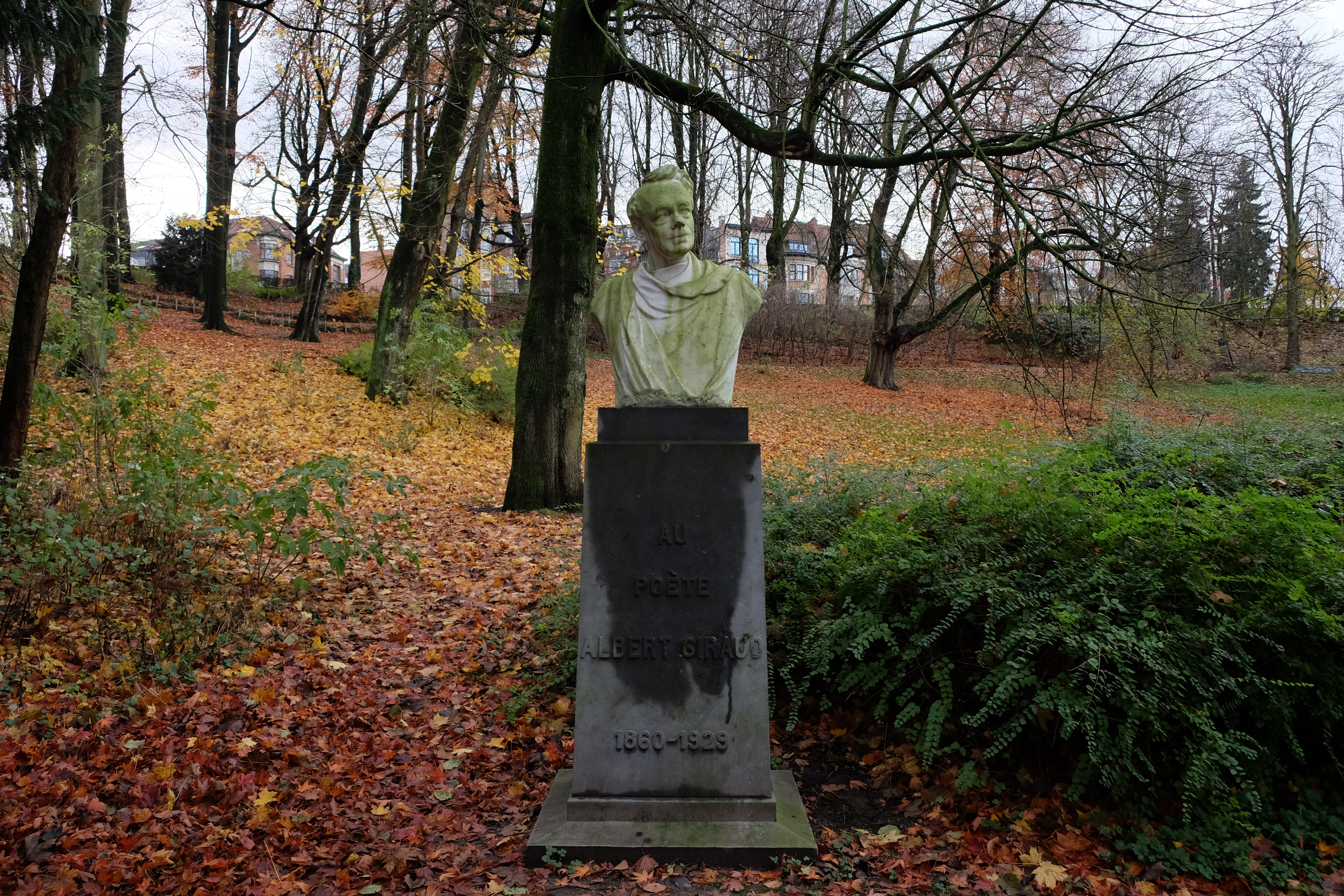 Parc Josaphat - Monument au poete Albert Giraud